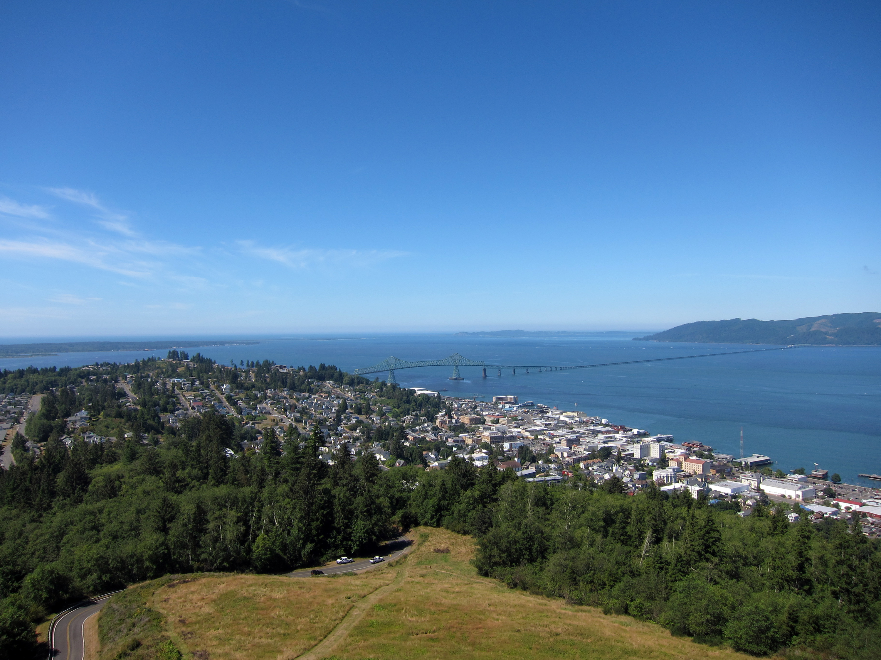 View of Astoria, the Astoria–Megler Bridge, and the mouth of the Columbia River from atop the Astoria Column